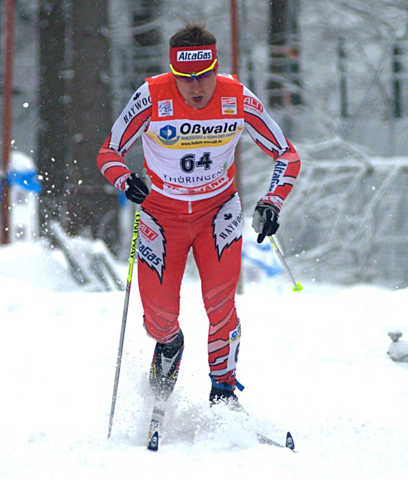 Ivan Babikow at the Tour de Ski 2010 in Oberhof